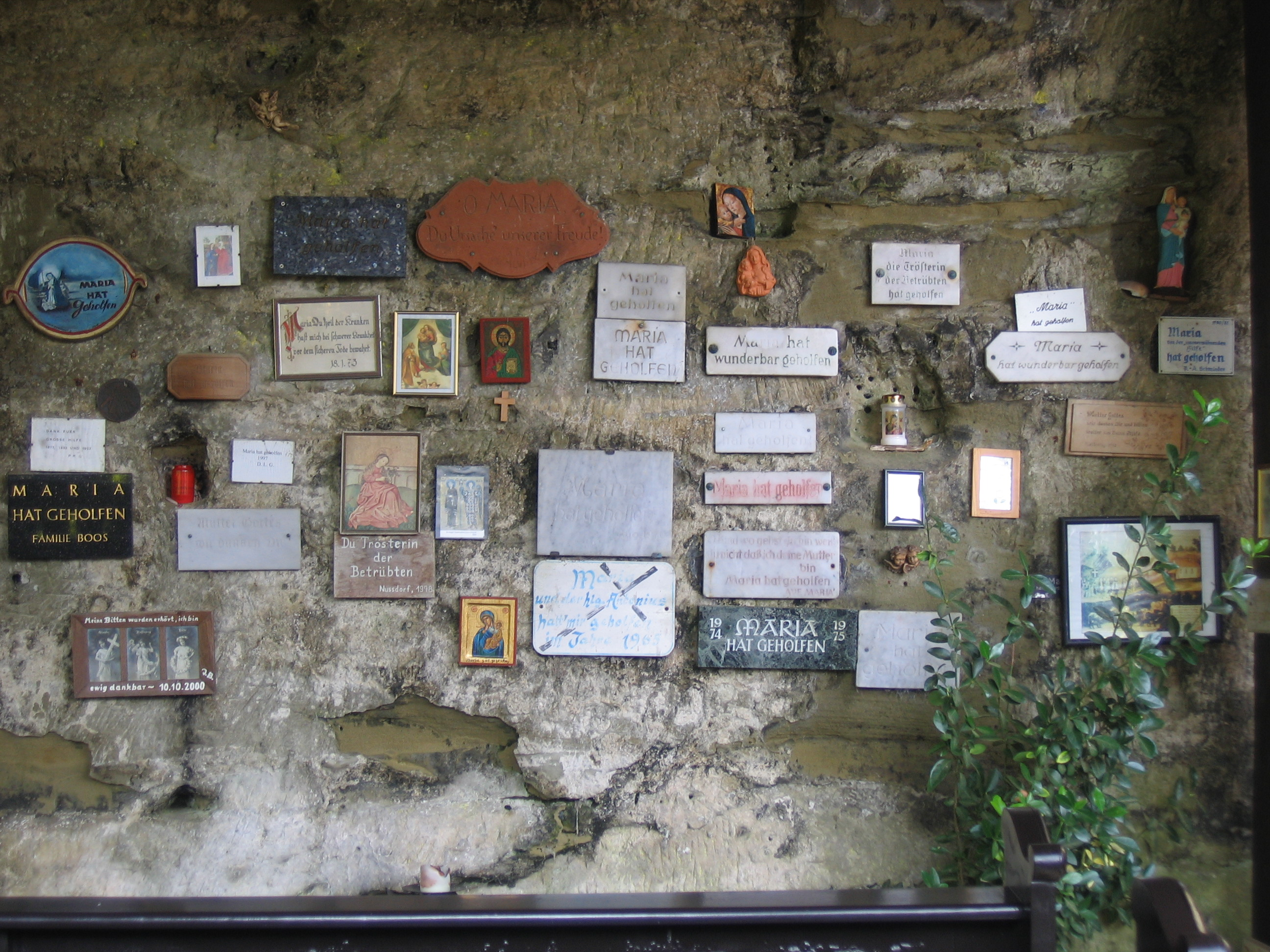 Germany - Baden-Württemberg - Bodenseekreis - Überlingen: votive tablets at "Maria im Stein"-chapel